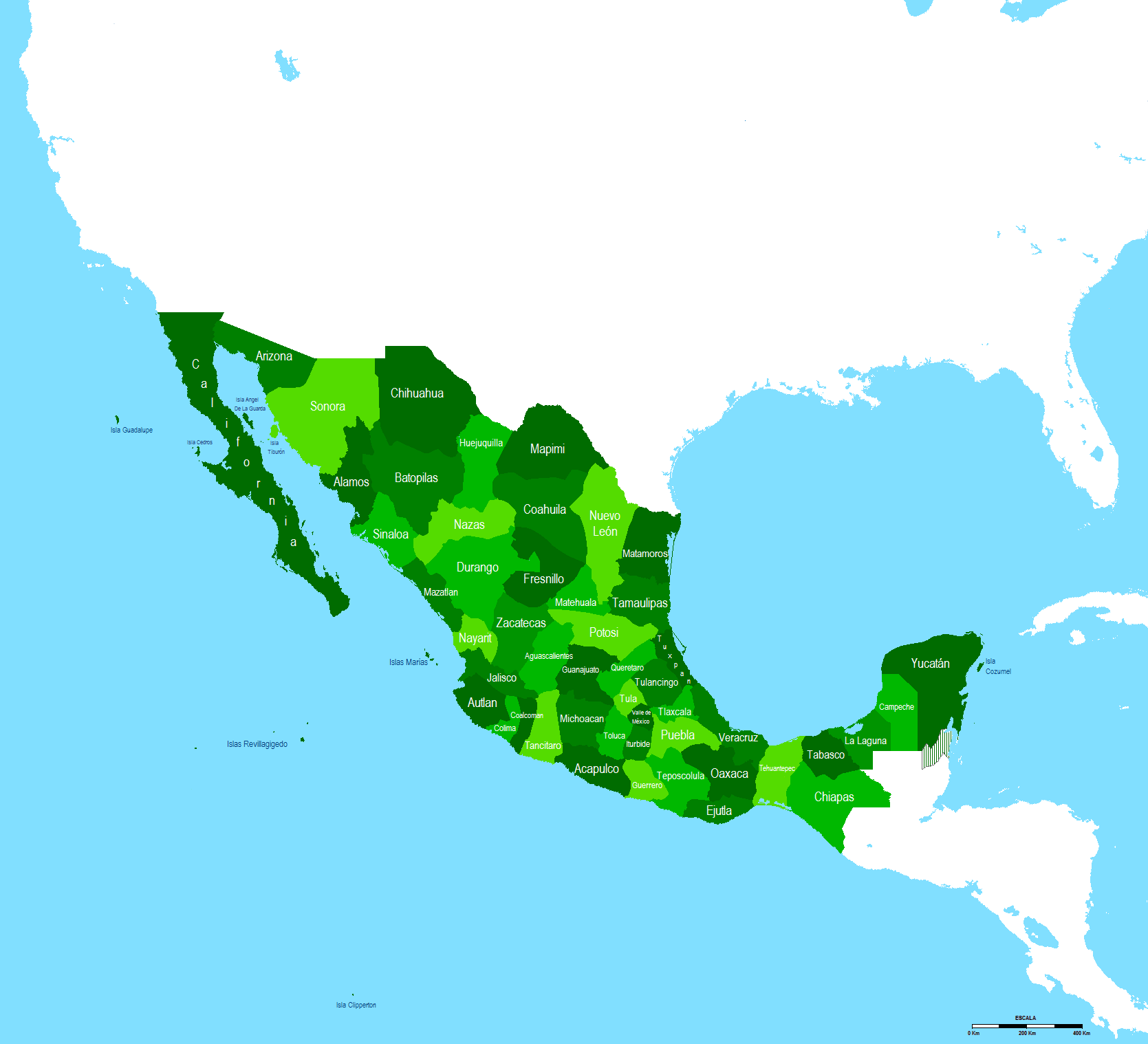 Map of Mexico in 1865 with the division's Second Mexican Empire